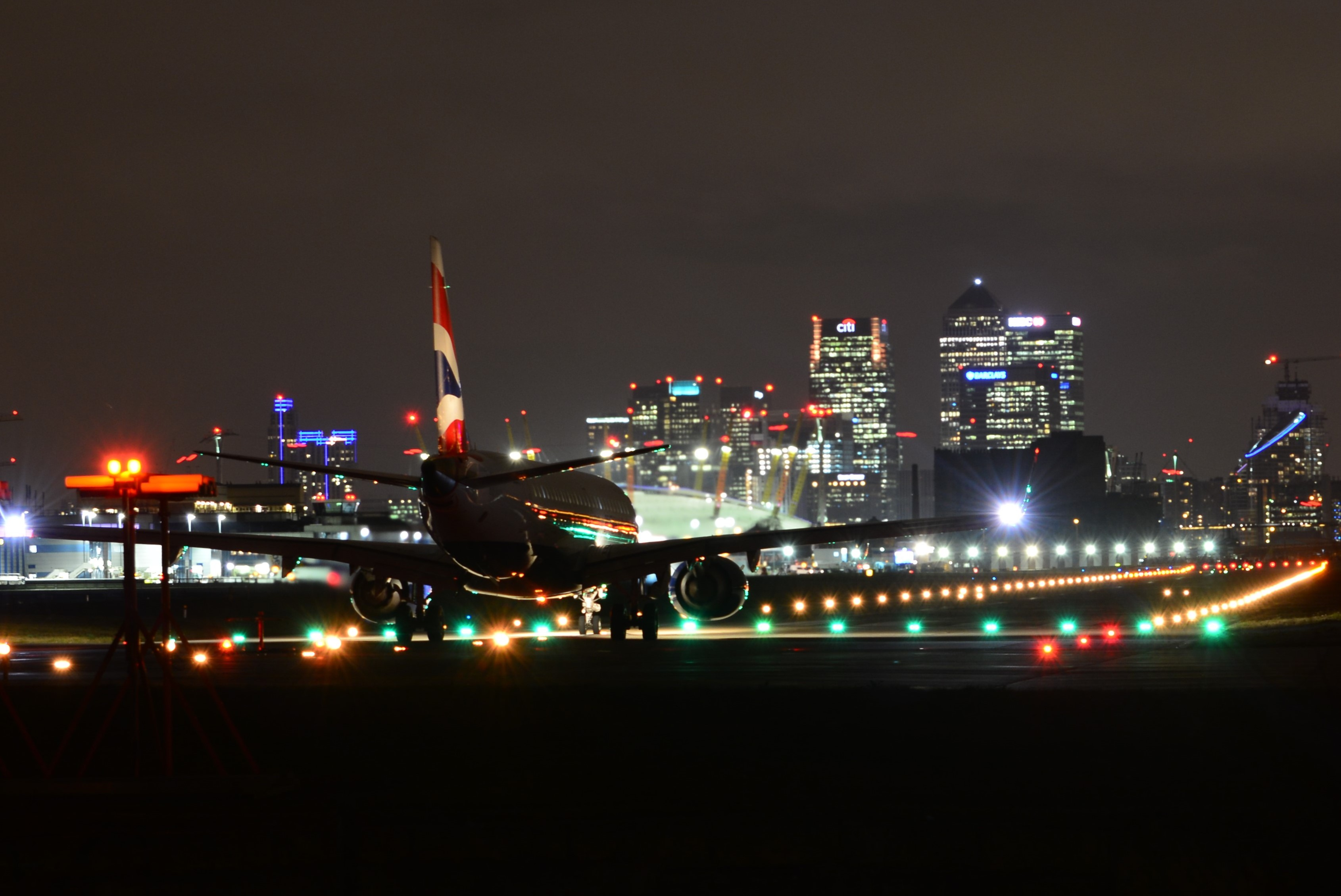 British Airways (BA CityFlyer) Embraer 190 at London City Airport. Night time shot with Canary Wharf visible in the distance.